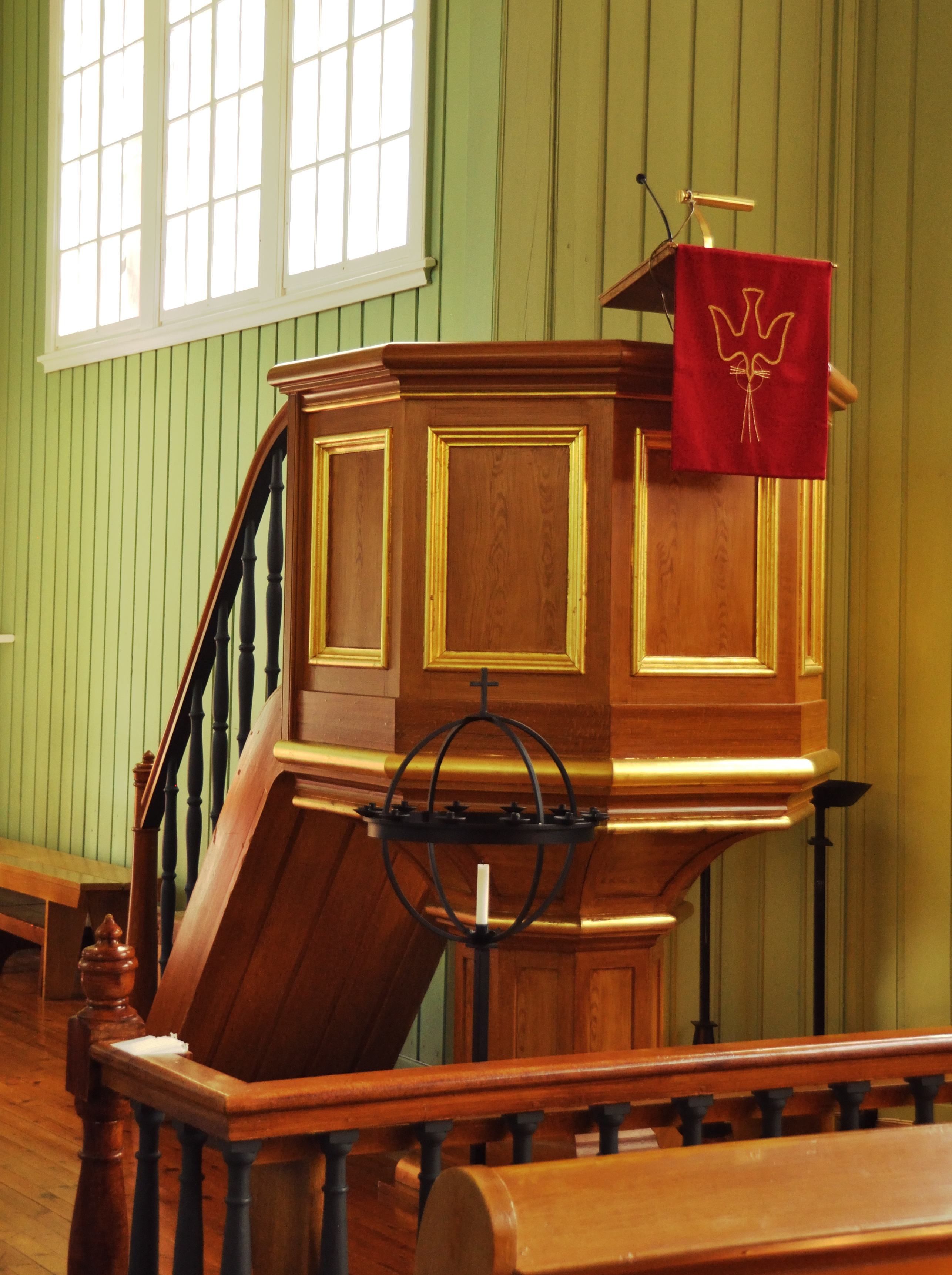 Nes Church, pulpit